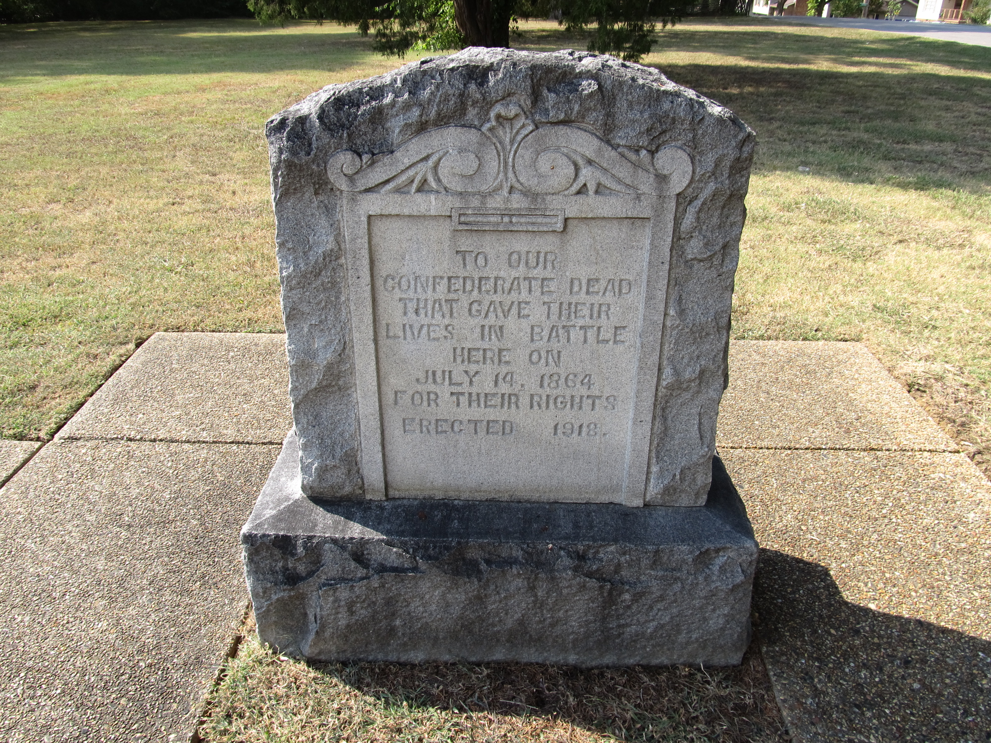 Tupelo National Battlefield, in Tupelo, Mississippi, commemorates the July 14–15, 1864, Battle of Tupelo in which Lieutenant General Nathan Bedford Forrest tried to cut the railroad supplying the Union's march on Atlanta. Established as Tupelo National Battlefield Site February 21, 1929; transferred from the War Department August 10, 1933; redesignated and boundary changed August 10, 1961. Listed on the National Register of Historic Places on October 15, 1966. Administered by the Natchez Trace Parkway.